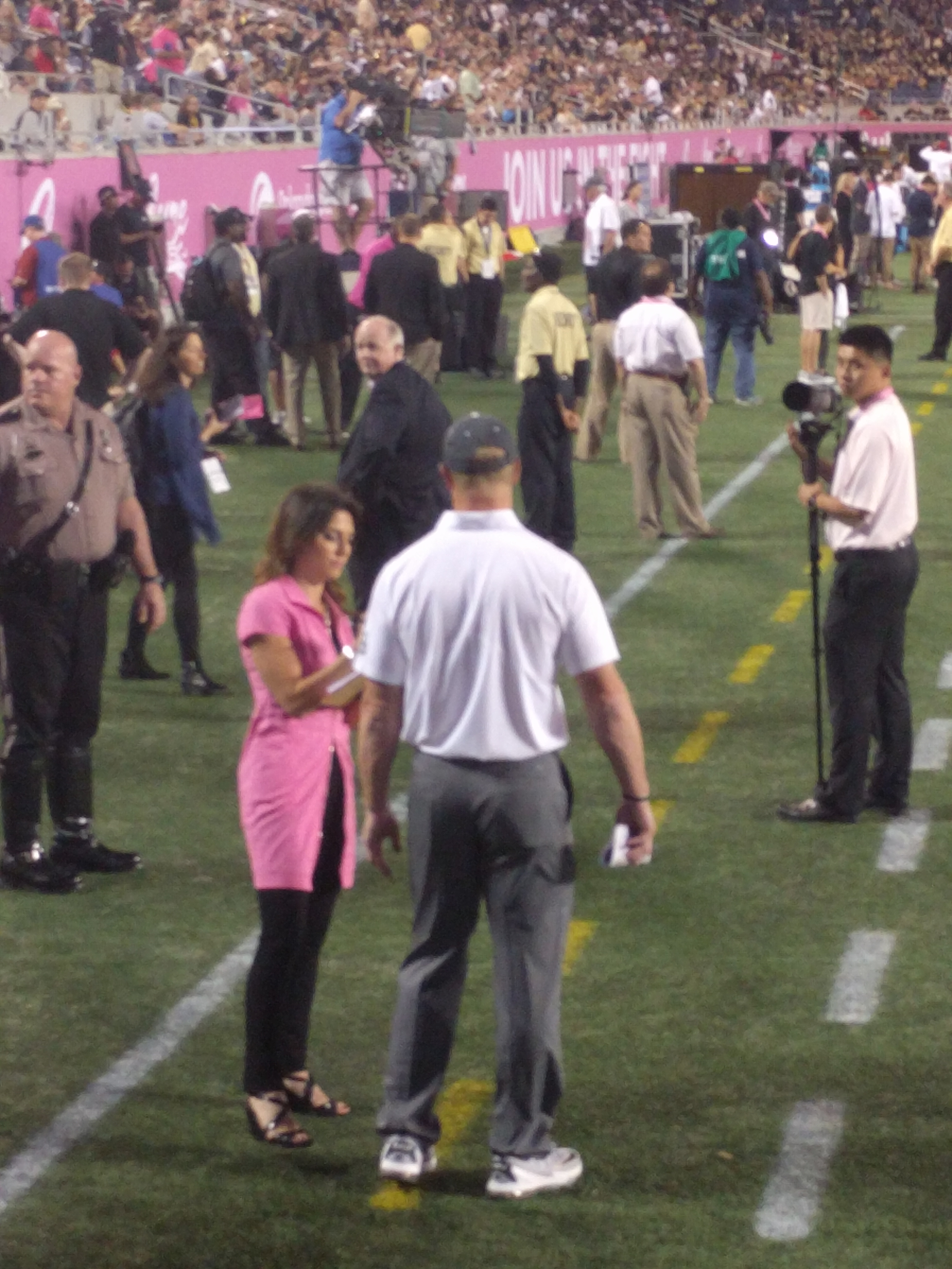 Jenny Dell interviewing Scott Frost as he comes out of the locker room